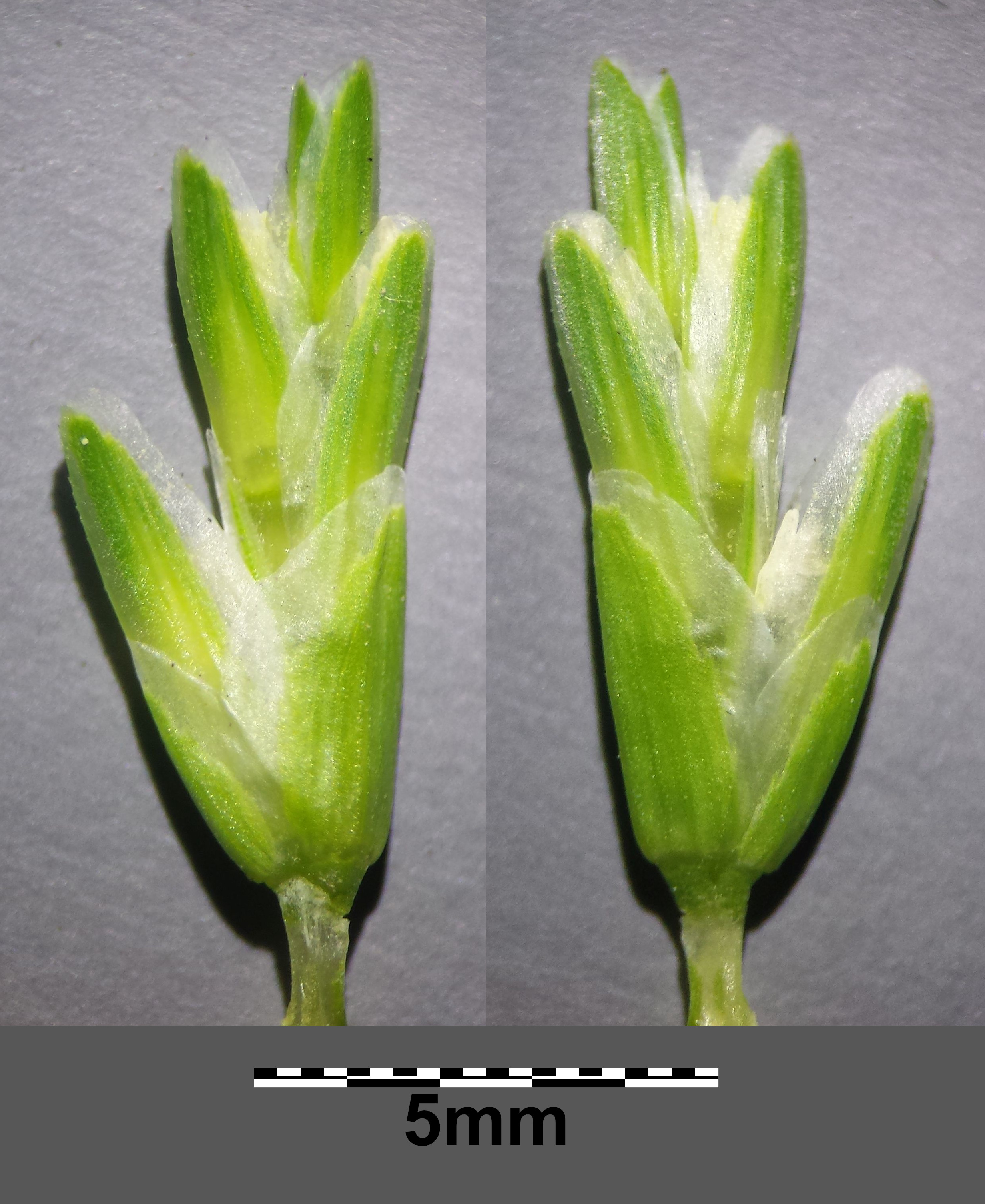 Spikelet Taxonym: Sclerochloa dura ss Fischer et al. EfÖLS 2008 ISBN 978-3-85474-187-9 Location: Lorettowiese in Jedlesee, Vienna-Floridsdorf - ca. 160 m a.s.l. Habitat: lawn